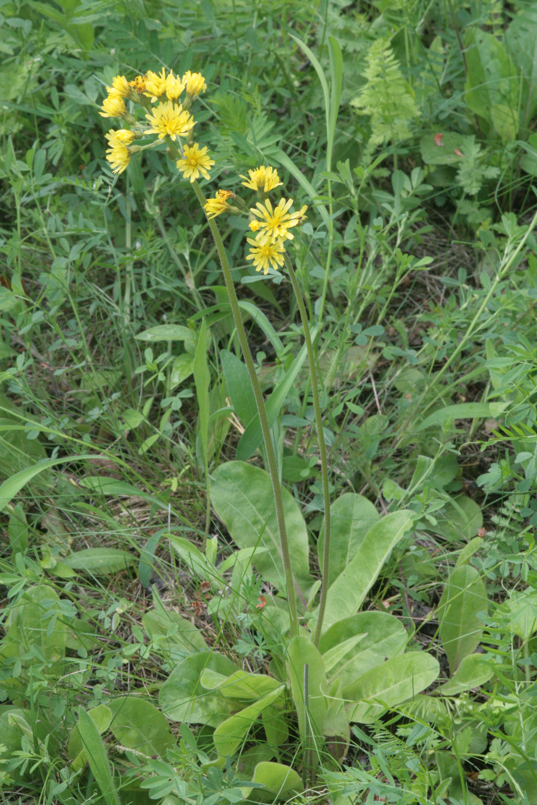 Crepis praemorsa